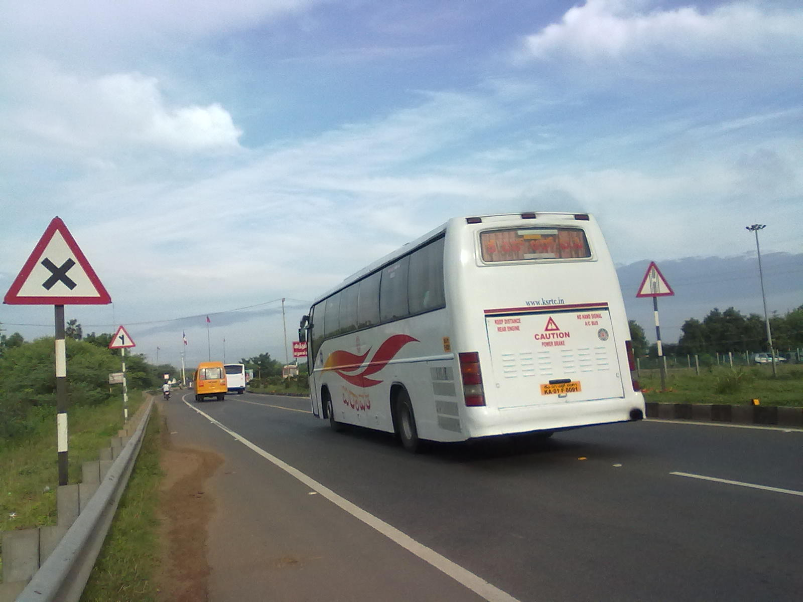 Bangalore highways